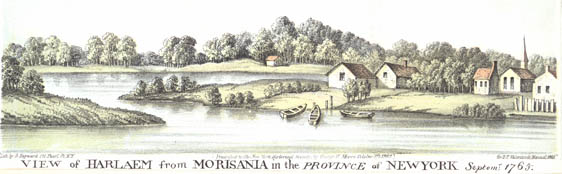 1863 lithograph of a 1765 drawing of Harlem, New York.